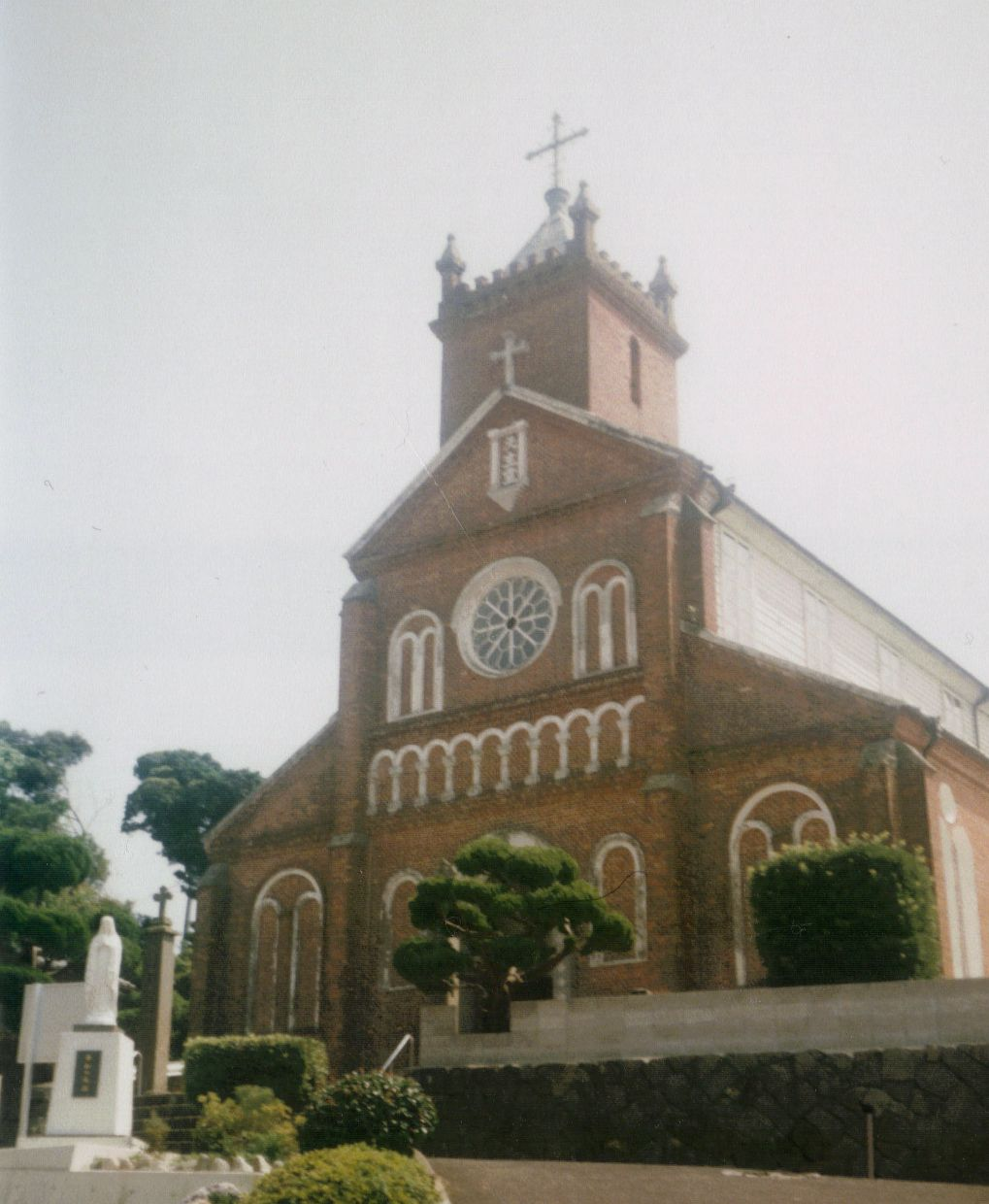 Catholic Church "Kuroshima Tenshudo", Kuroshima Island near Sasebo, Nagasaki Ken, Japan.